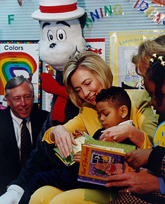 First Lady Hillary Rodham Clinton reads Rosemary Wells's book Read To Your Bunny to children at a Learning Ideas bookstore in District Heights, Maryland, on March 2, 1998, as part of Read Across America Day. See this account of the visit. Congressman Steny Hoyer of Maryland is also shown.